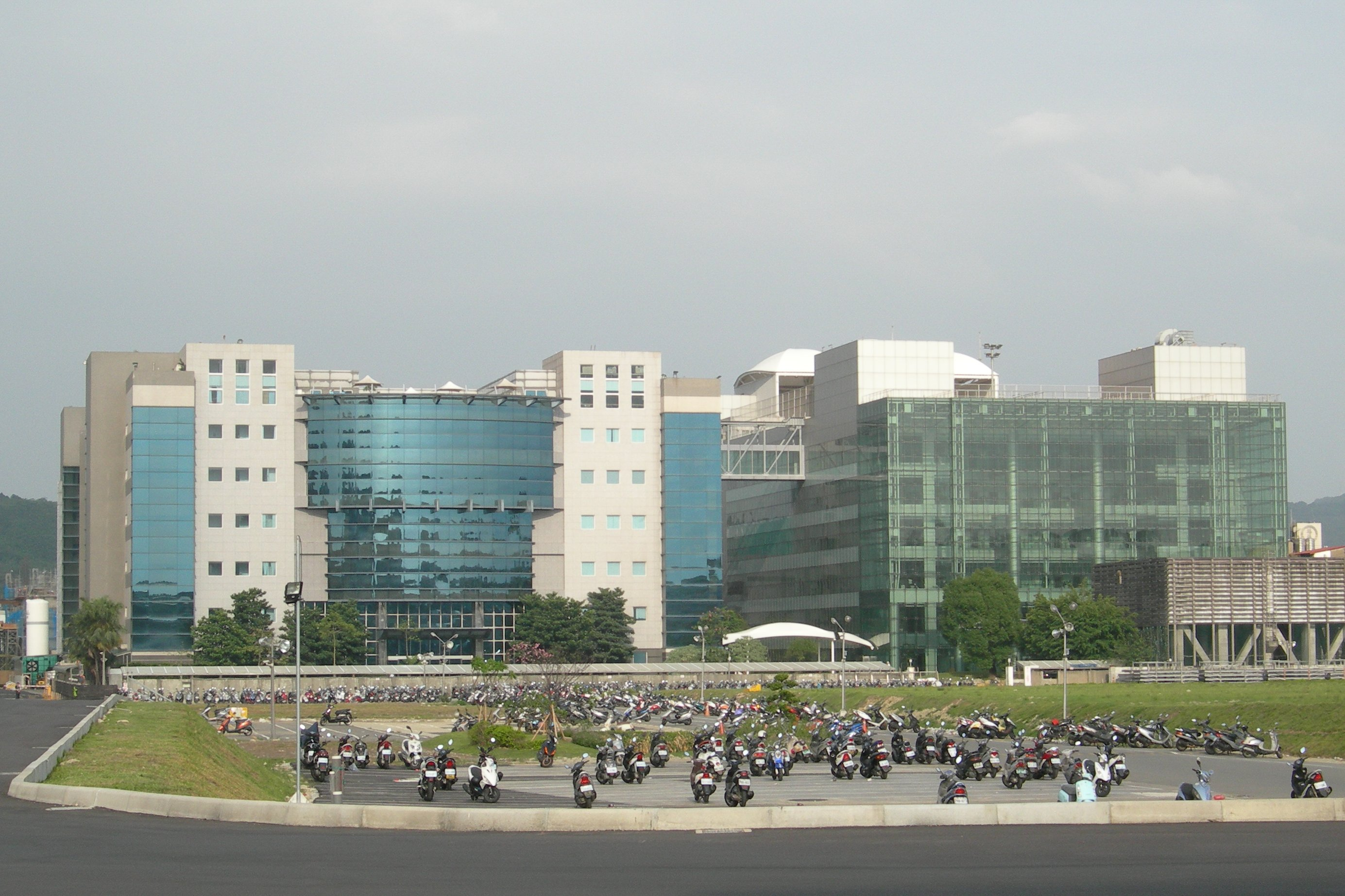 The HTC headquarters in Taoyuan.